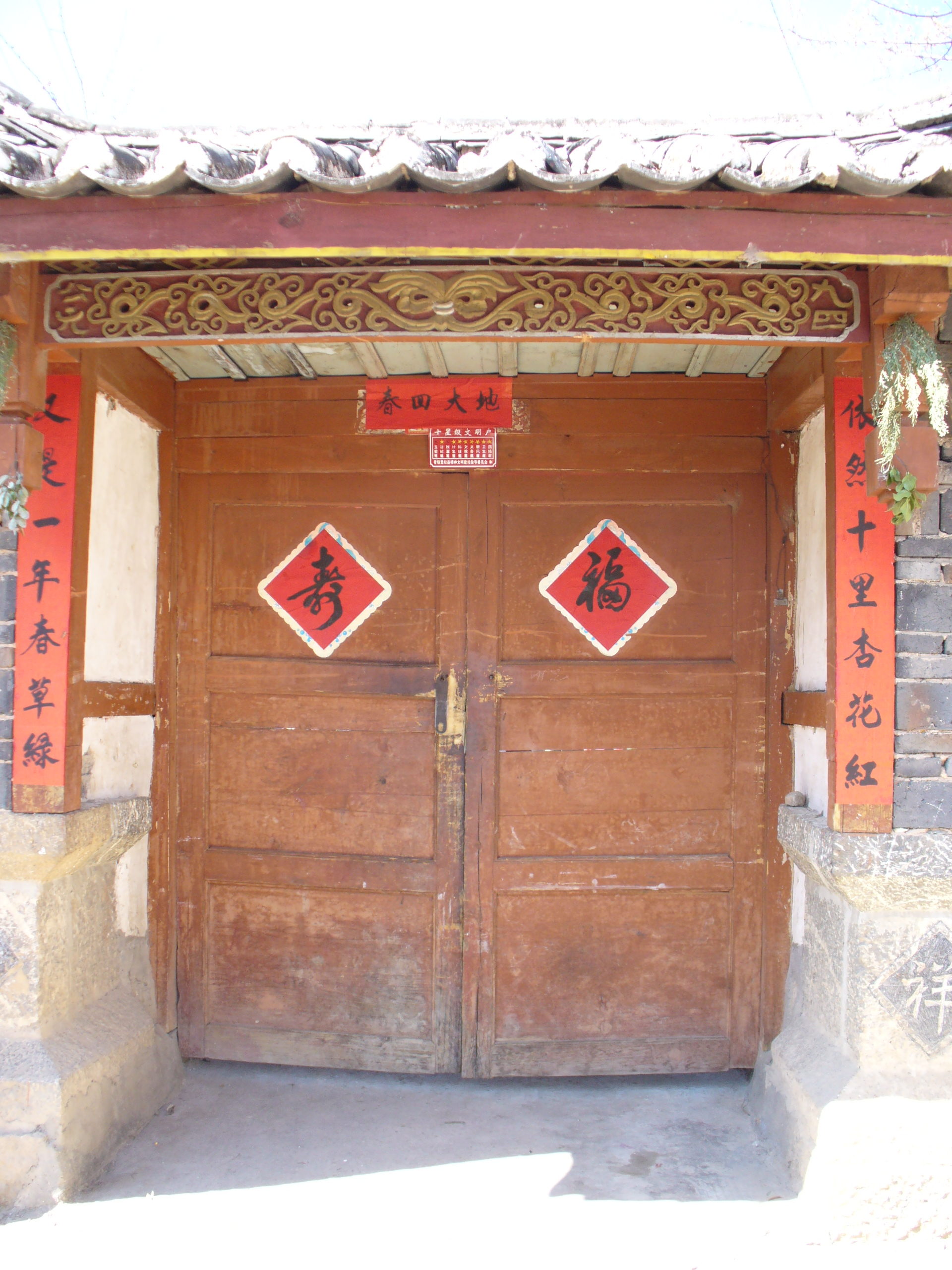 Rotes Duilian aus Baishuitai, 在白水台照的对联. The left and right lines are swapped.